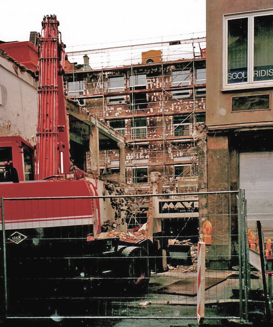 Frankfurt/Main, Niddastr. (fur center)